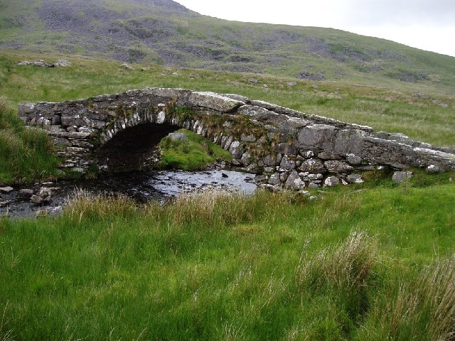 Pont-Scethin, a stone arch bridge over Afon Ysgethin in Gwynedd on the former London — Harlech coach road